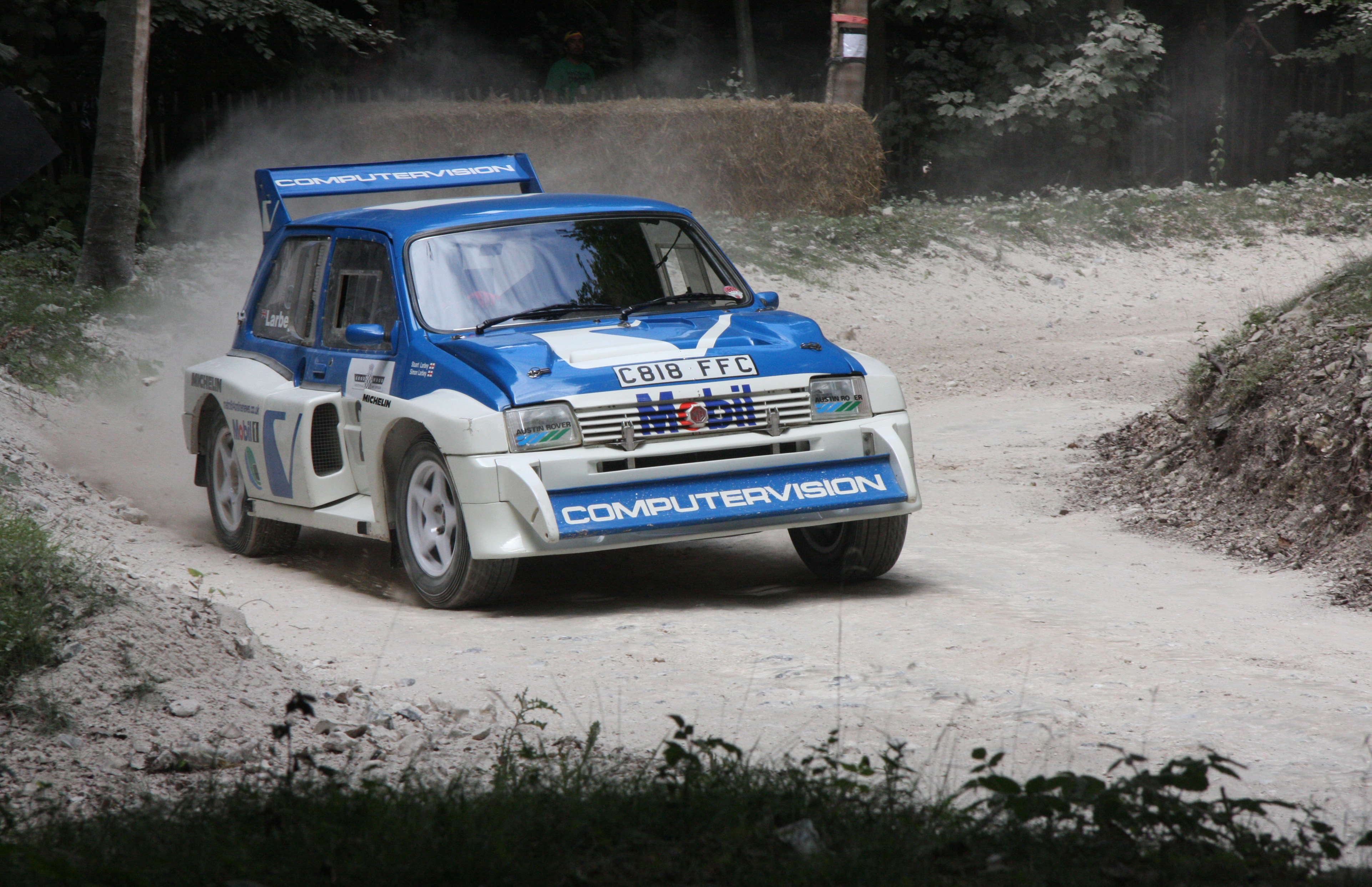 Group B MG Metro 6R4